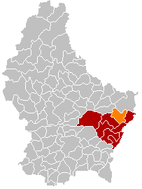 Own edit of Kanton GrevenmacherLocatie.png